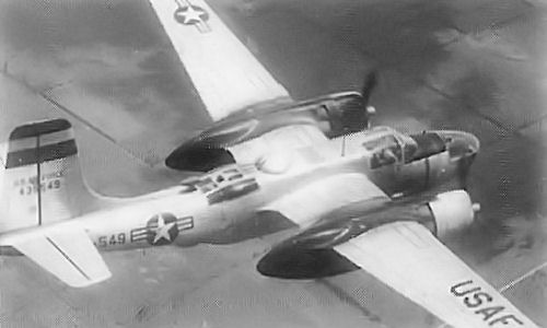 Douglas B-26C, #44-35549 of the 180th Light Bombardment Squadron, Bordeaux-Mérignac AB, France (1951/52)